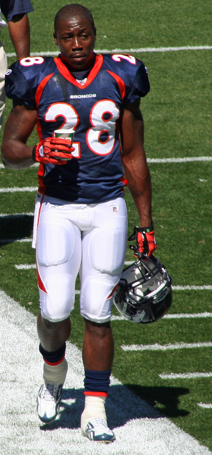 Correll Buckhalter, a player on the Denver Broncos American football team.